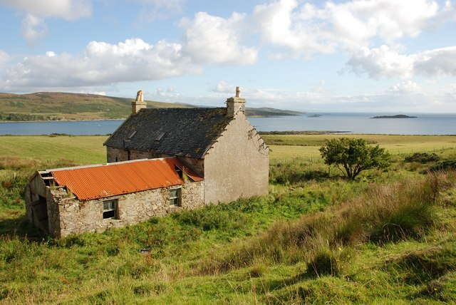 Deserted Farmhouse on Island of Danna This farmhouse, now deserted, overlooks the south end of Danna Island. In the distance, across Loch Sween, lies the Point of Knap.